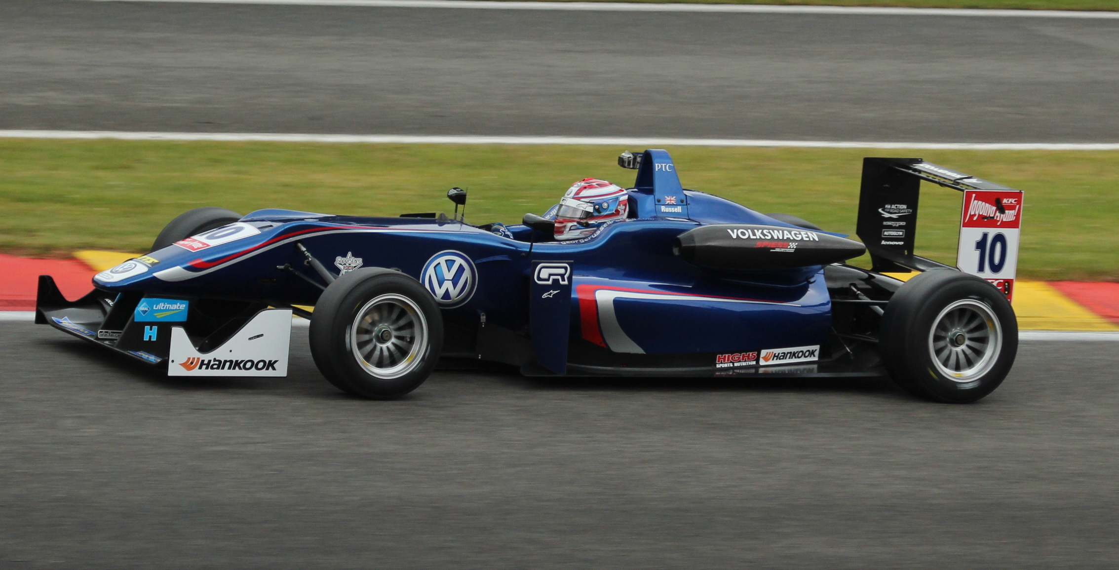 George Russell at Spa in 2015, European Formula 3 Championship